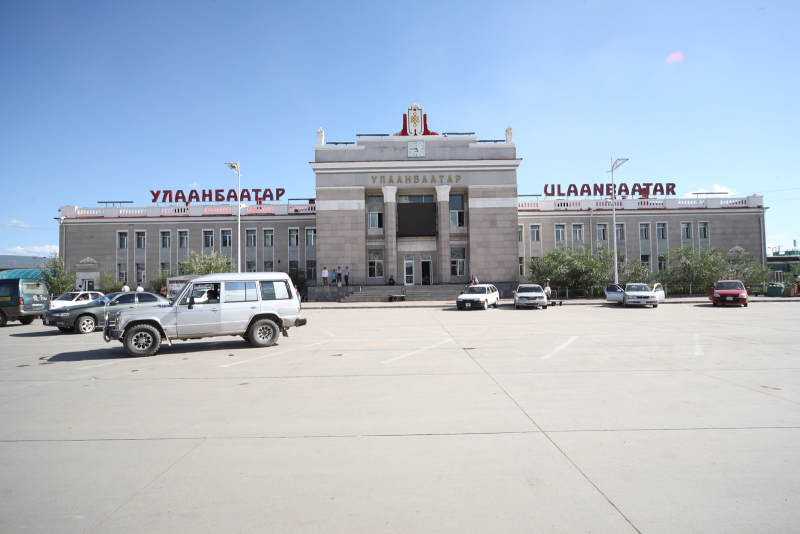 Building in Ulan Bator.